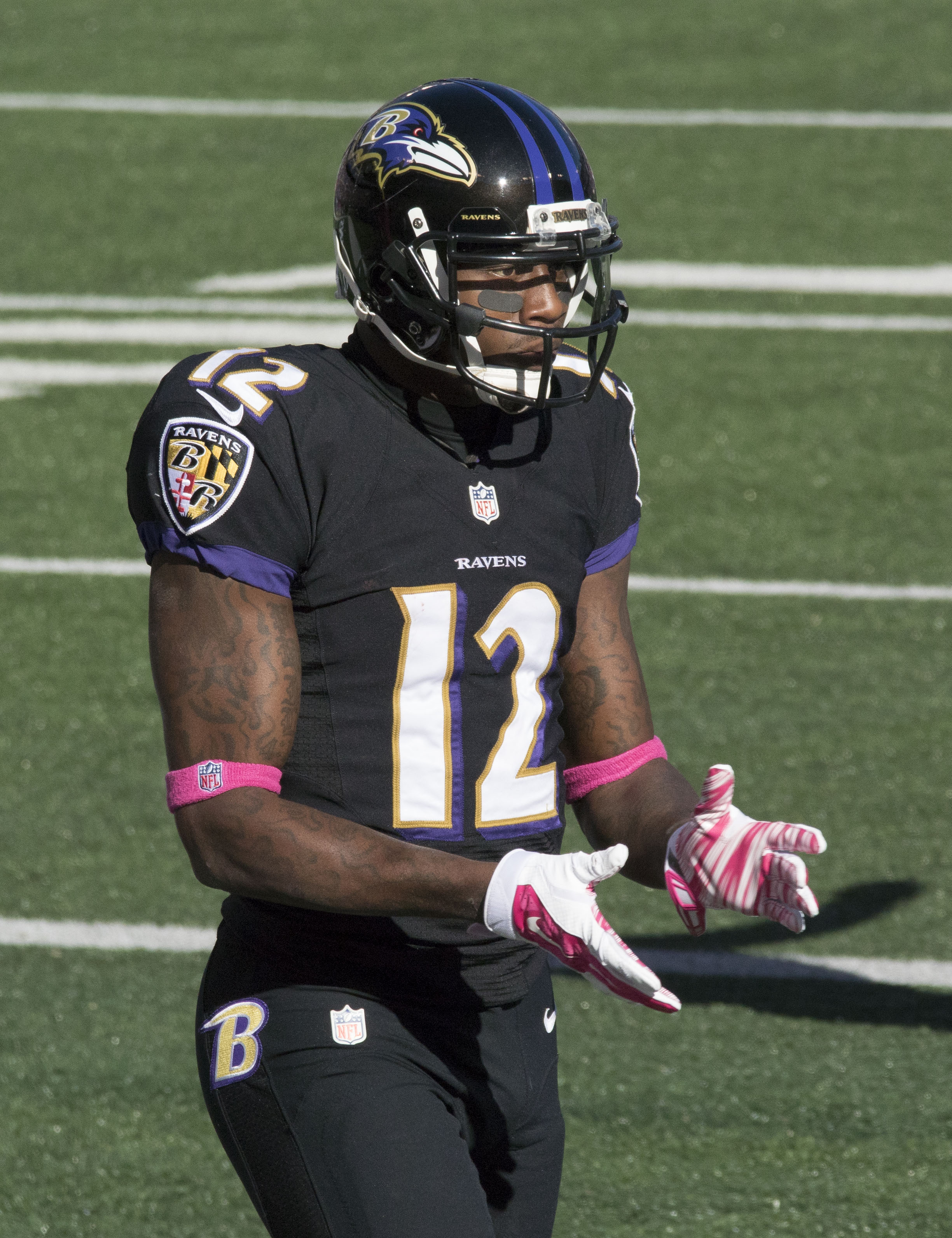 Baltimore Ravens wide receiver, Jacoby Jones, in a game against the Atlanta Falcons on October 19, 2014